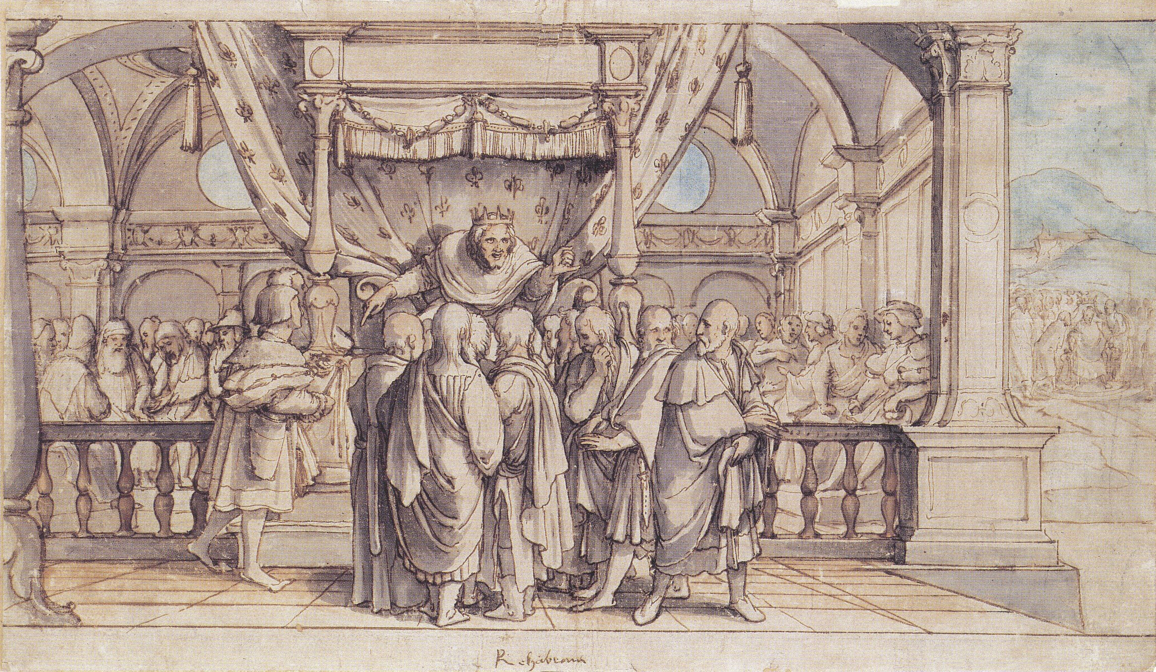 Rehoboam's Insolence. Pen and brown ink and brush, grey wash and watercolour, 22.5 × 38.3 cm, Kunstmuseum Basel. Holbein began working on the murals for the Council Chamber of Basel Town Hall during the 1520s, painting classical subjects. After his return from a two-year visit to England (1526–28), he was commissioned to resume the task, but this time to provide murals based on Old Testament subjects, in keeping with the new Reformation doctrines of the authorities. The murals were one of several large-scale projects undertaken by Holbein that are now known only from a few fragments and preparatory sketches. This design portrays Rehoboam, the son of Solomon, whose arrogant government led to his people's rebellion and the loss of part of his kingdom. He holds out his little finger, saying, "My little finger is thicker than my father's waist!" The murals reminded the councillors of the need for wise and godly government. Among the surviving fragments of the murals is one showing Rehoboam, but in profile. References Christian Müller; Stephan Kemperdick; Maryan Ainsworth; et al, Hans Holbein the Younger: The Basel Years, 1515–1532, Munich: Prestel, 2006, ISBN 9783791335803, p. 412 Derek Wilson, Hans Holbein: Portrait of an Unknown Man, London: Pimlico, 2006, ISBN 9781844139187, p. 162.